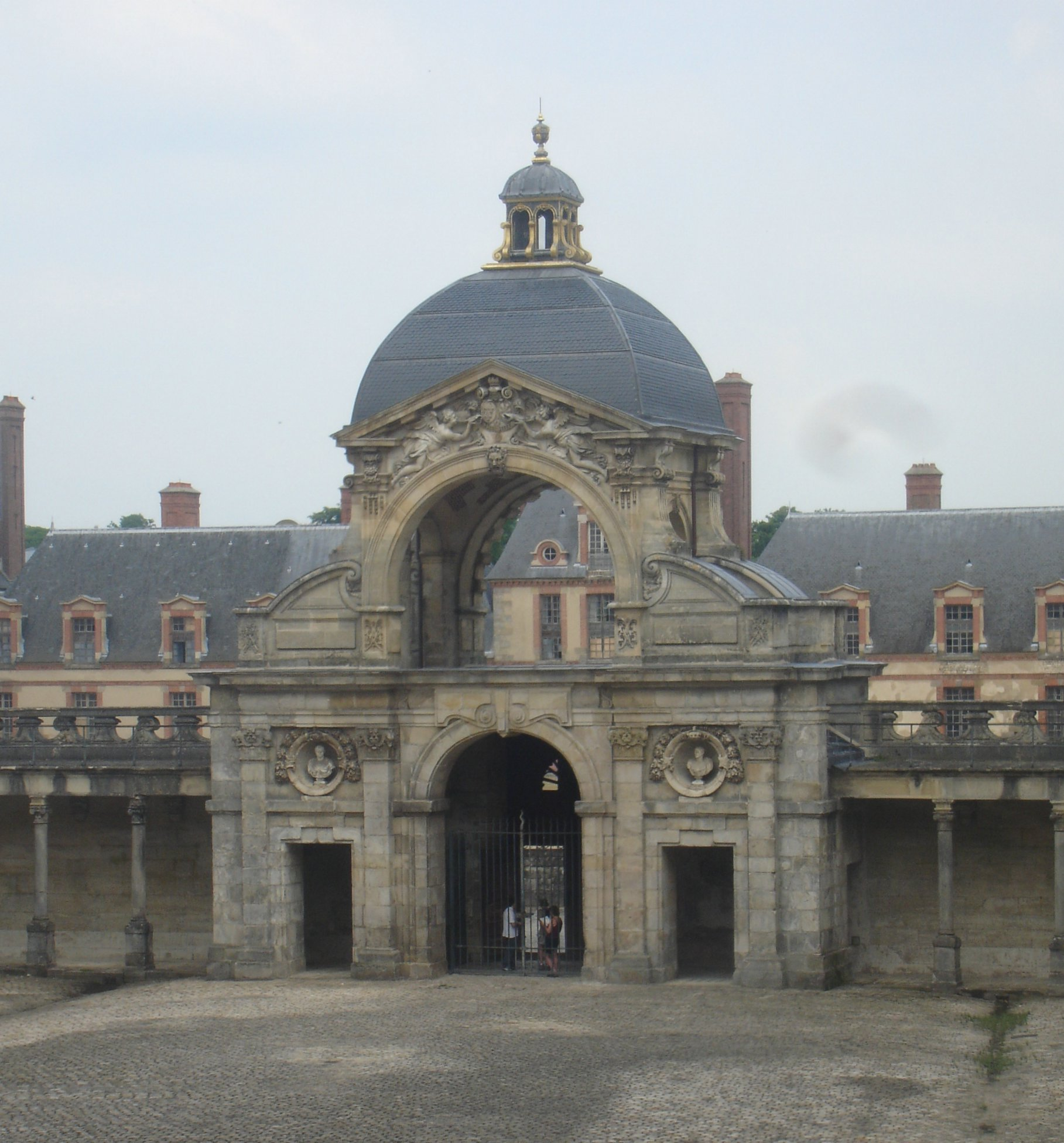 Gatehouse of the château de Fontainebleau